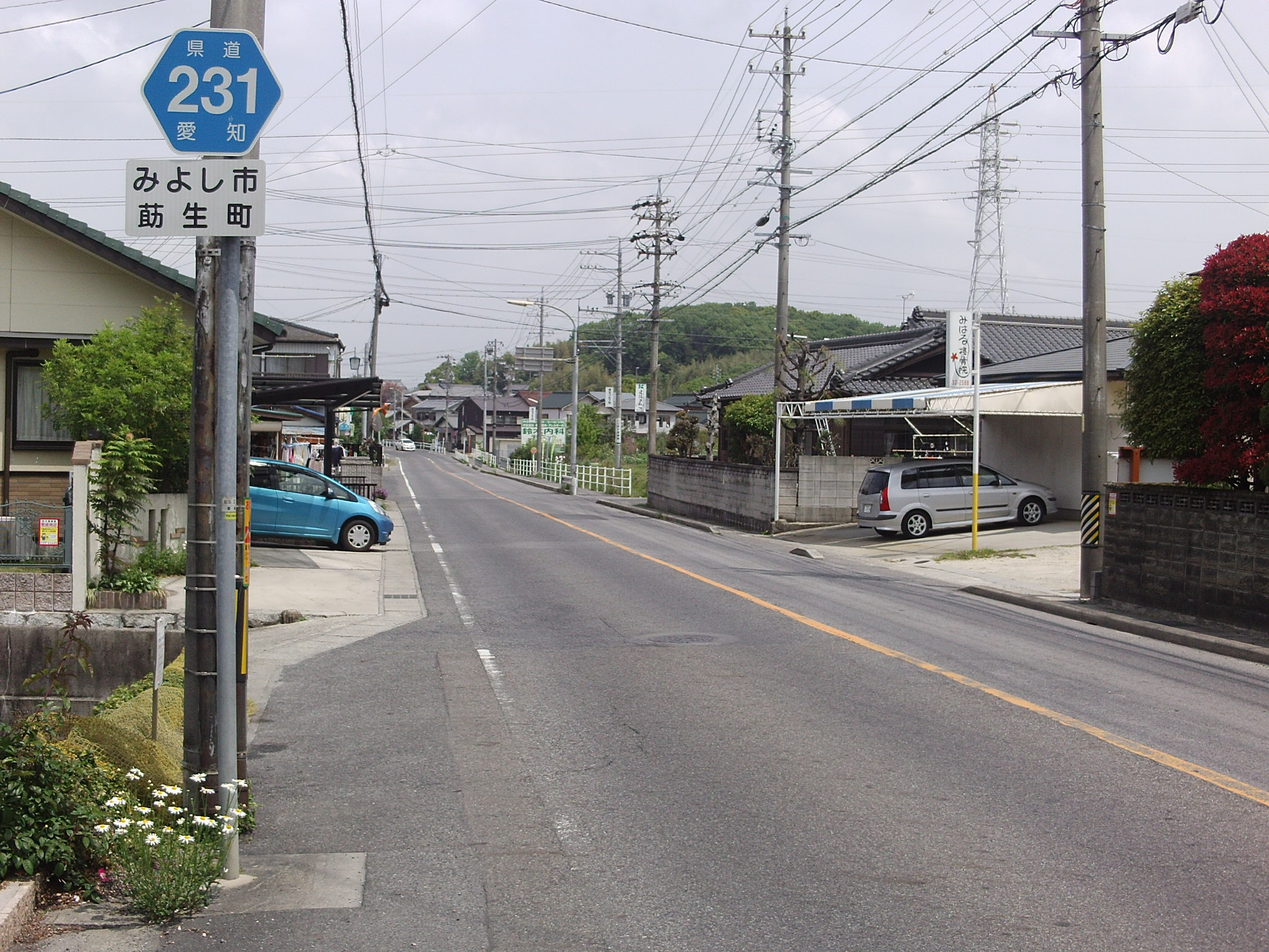 Aichi prefectural road No.231 in Azabucho, Miyoshi, Aichi.